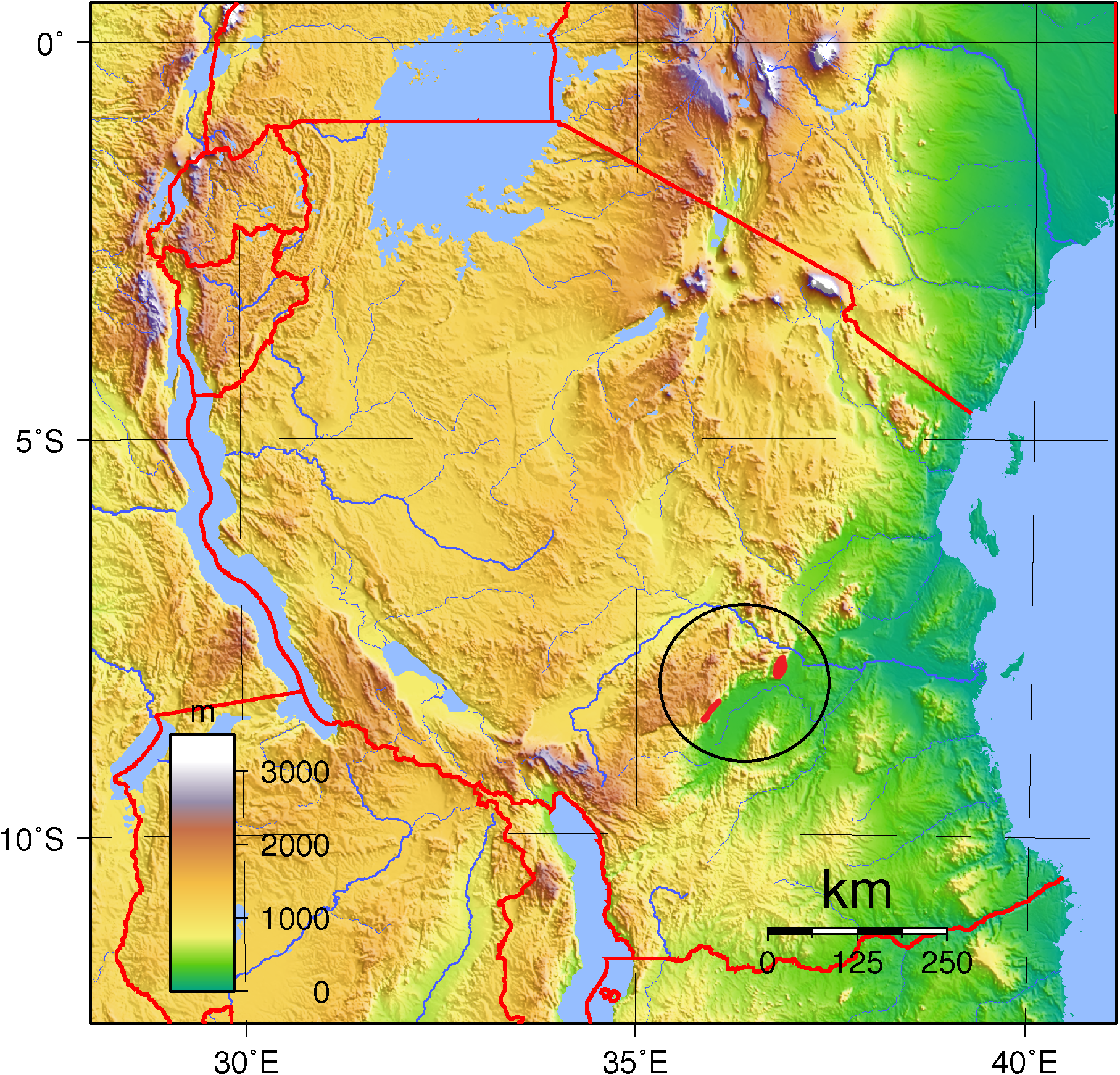 Distribution Cercocebus sanjei